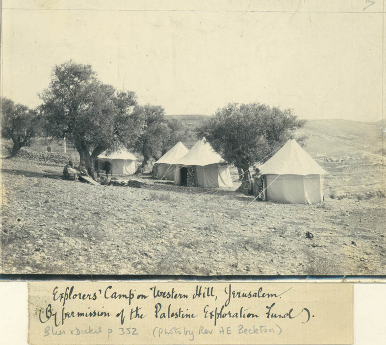 The camp of F J Bliss and A C Dickie on the slopes of Mount Zion, Jerusalem. This print was made from a negative taken by Rev A E Beckton at the camp used by F J Bliss and A C Dickie on Mount Zion in Jerusalem during their excavations there between 1894 and 1897. The photograph shows four tents in between the olive trees. On the right a figure can be seen standing next to one of the tents and this might be either Bliss or Dickie. On the back of the print in pencil: "Dr Bliss' Camp outside the walls". This photograph was published in Bliss and Dickie, "Excavations at Jerusalem" (PEF:London, 1898), page 352.